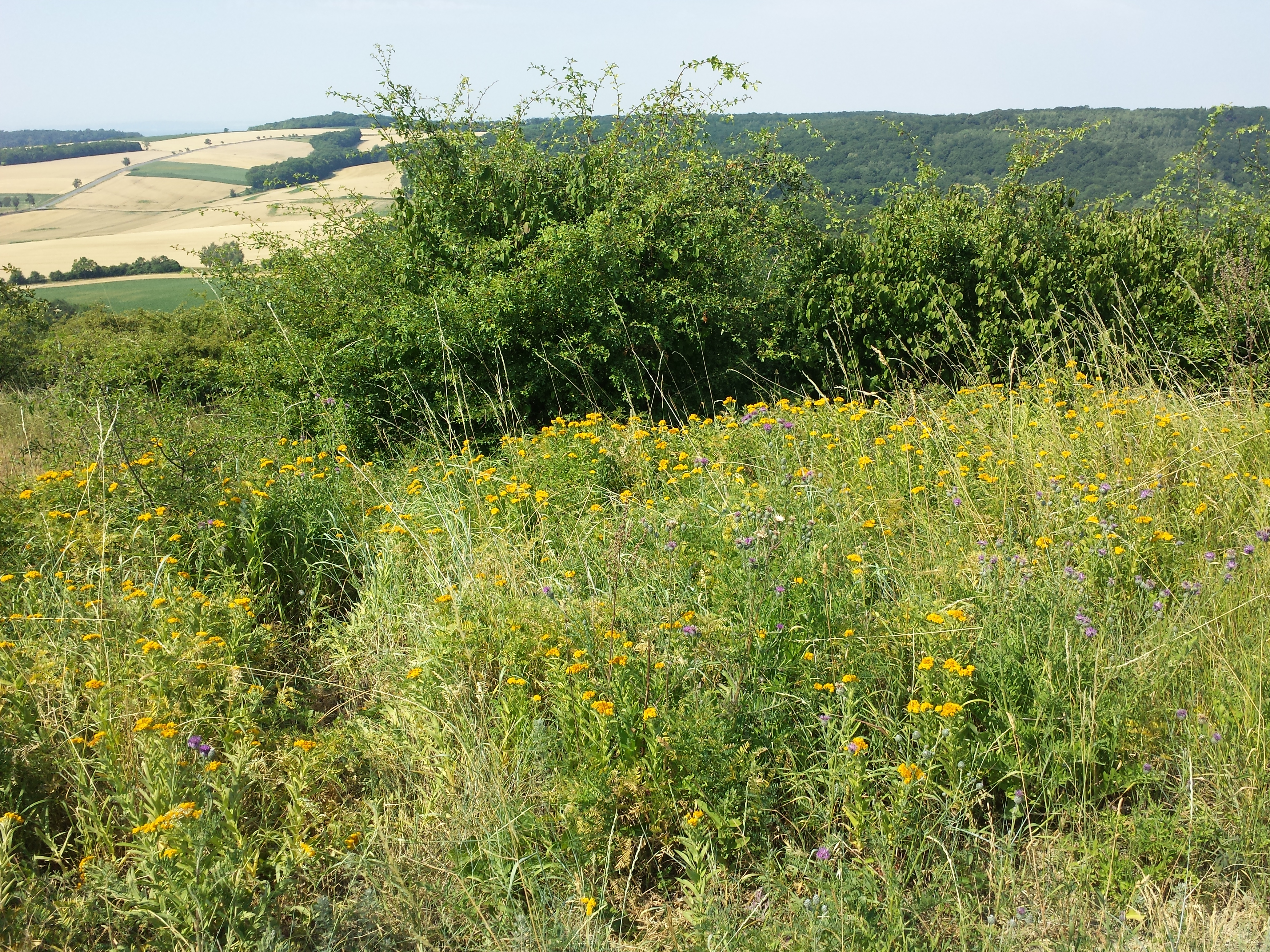 Habitat Taxonym: Inula germanica ss Fischer et al. EfÖLS 2008 ISBN 978-3-85474-187-9 Location: Kalte Stube near Puch, district Hollabrunn, Lower Austria - ca. 350 m a.s.l. Habitat: border of a shrubbery